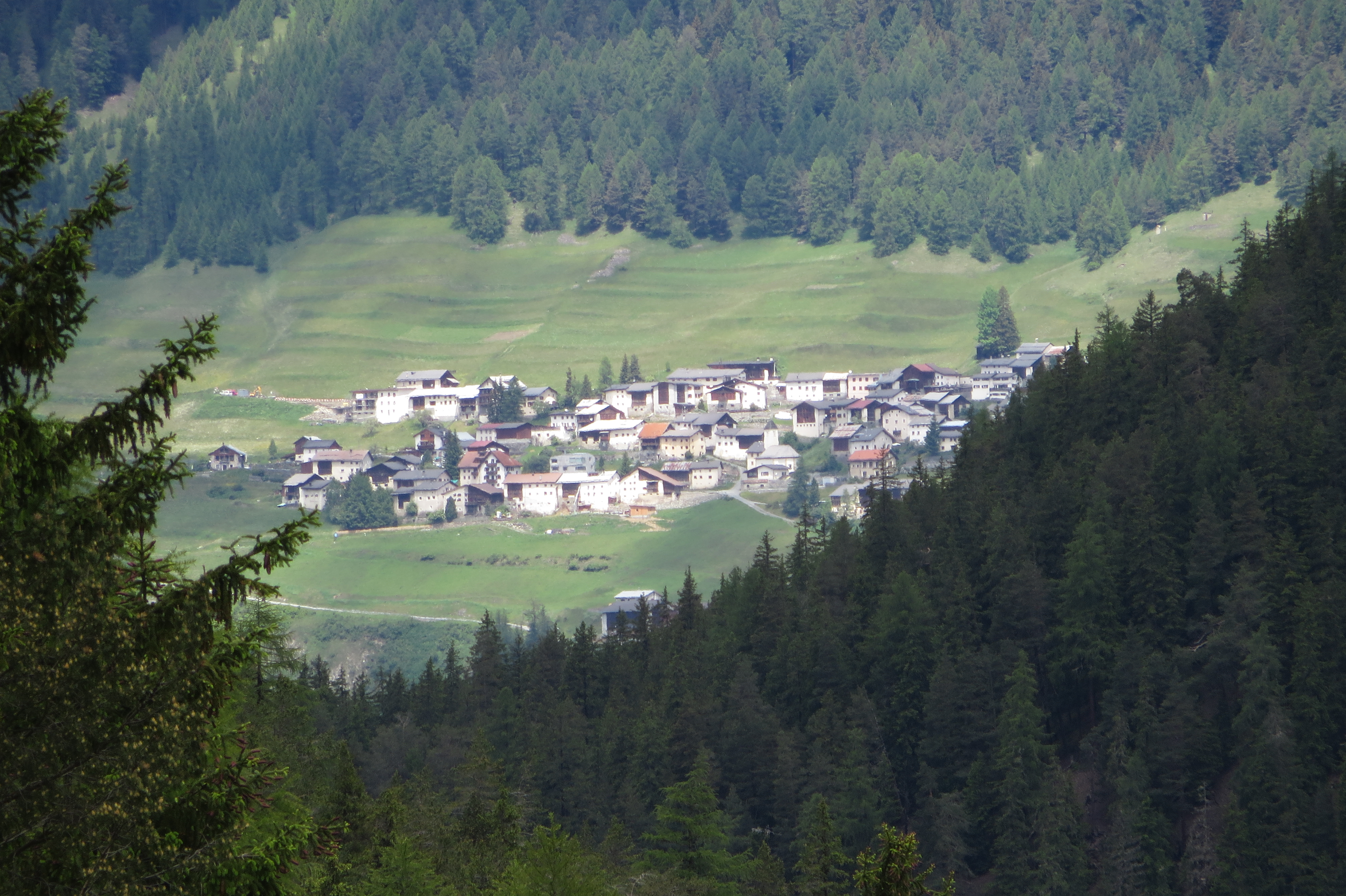 Vnà, Grisons, view from Val d’Uina